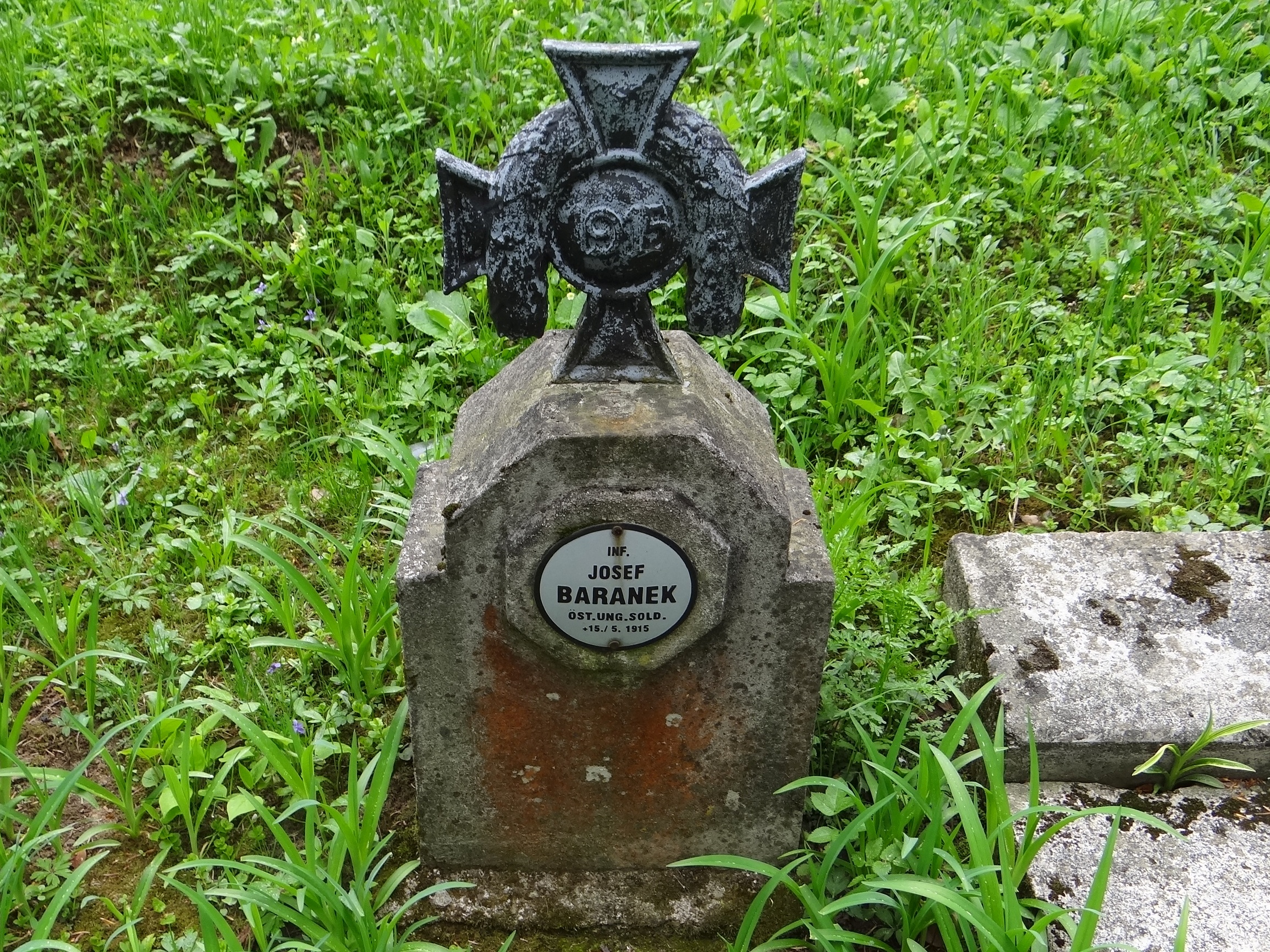 World War I Cemetery nr 151 in Lubaszowa